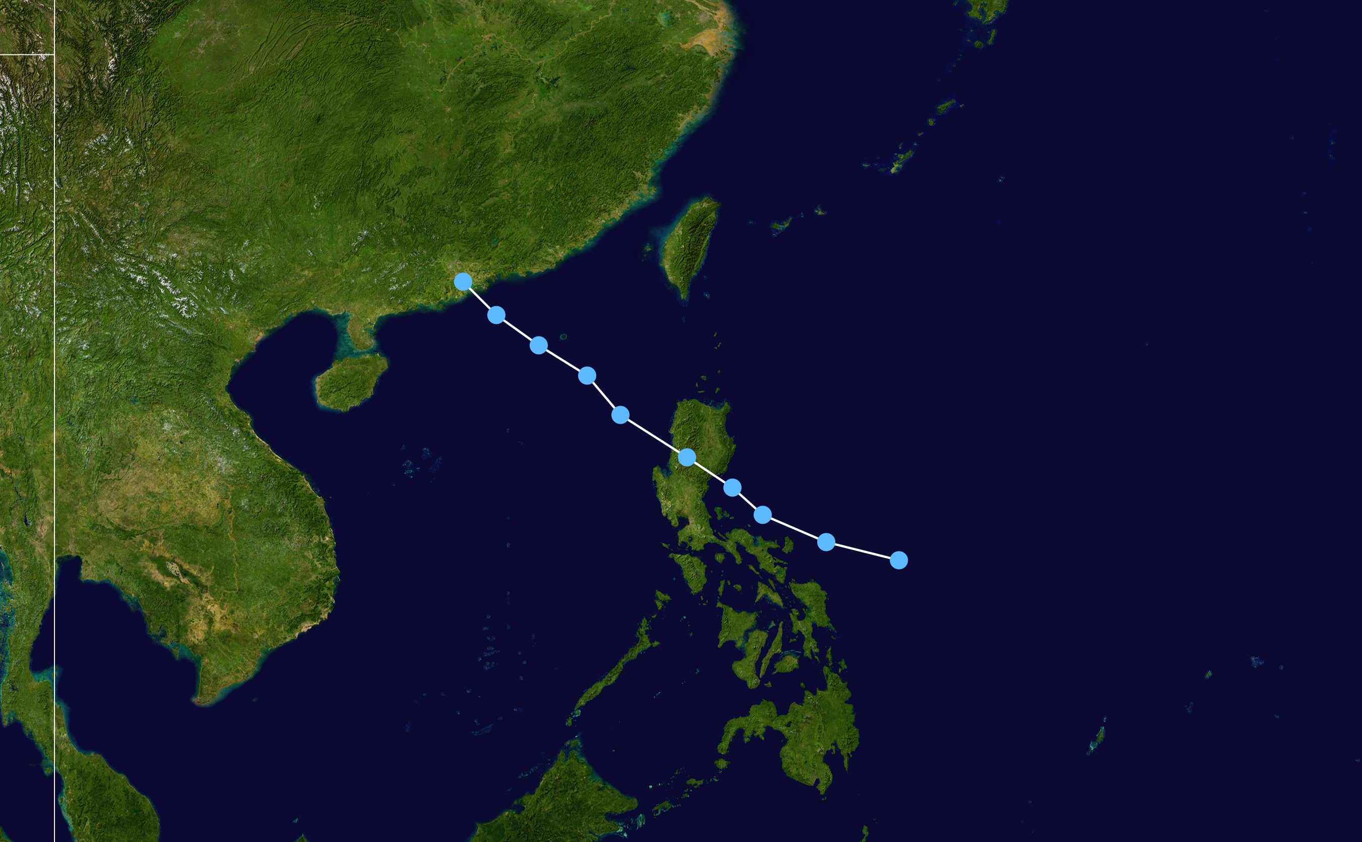 Track map of Tropical Depression Ambo of the 2016 Pacific typhoon season. The points show the location of the storm at 6-hour intervals. The colour represents the storm's maximum sustained wind speeds as classified in the Saffir–Simpson scale (see below), and the shape of the data points represent the nature of the storm, according to the legend below. Saffir–Simpson scale Tropical depression≤38 mph≤62 km/h Category 3111–129 mph178–208 km/h Tropical storm39–73 mph63–118 km/h Category 4130–156 mph209–251 km/h Category 174–95 mph119–153 km/h Category 5≥157 mph≥252 km/h Category 296–110 mph154–177 km/h Unknown Storm type Tropical cyclone Subtropical cyclone Extratropical cyclone / Remnant low / Tropical disturbance / Monsoon depression